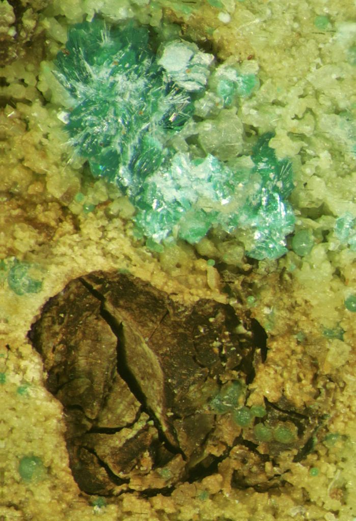 The brown yakhontovite PS is ~ 1½ mm in diameter. Yakhantovite PS after tennantite with clinoatacamite and small spheres of conichalcite. The back of the specimen has clinotyrolite. (There are larger and more complete yakhontovite PS on the specimen but I liked the contrast with clinoatacamite.) From: La Amorosa mine, San Rafael claim, Villahermosa del Rio, Castellón, Valencian Community, Spain